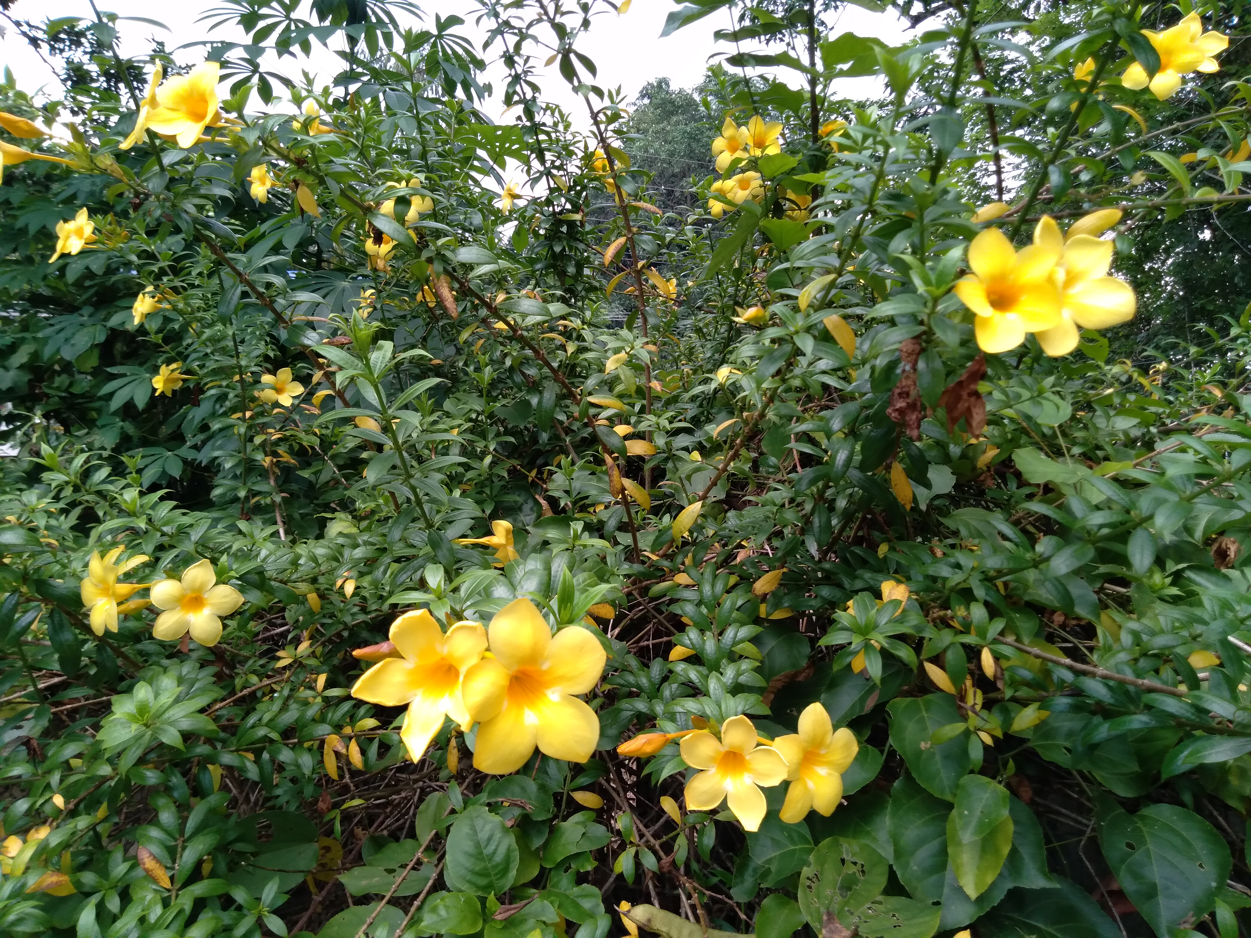 Golden trumpet (Allamanda cathartica) plant.